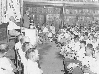 Ceremony establishing the Ryukyuan Democratic Party